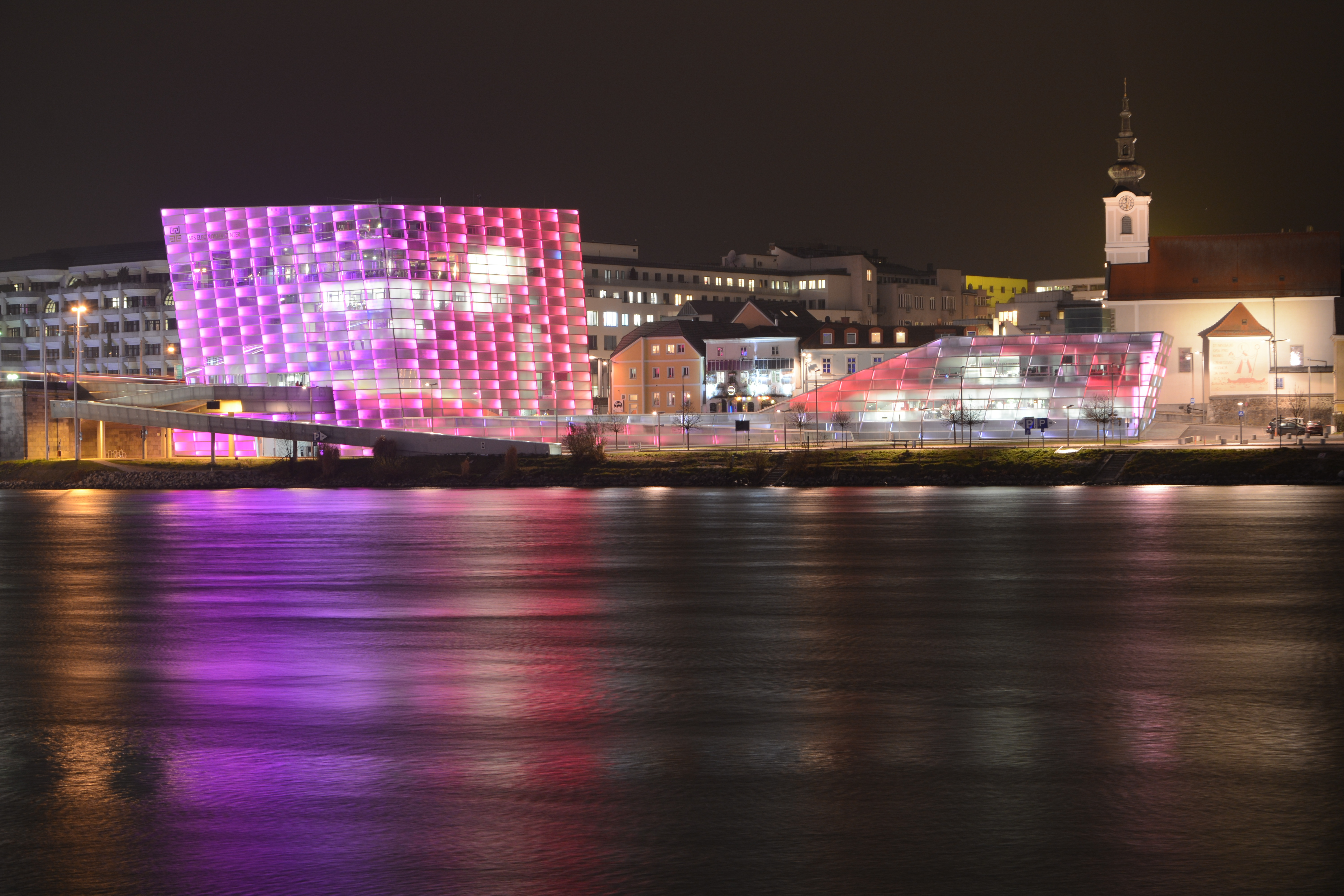 The ARS Electronica Center seen from Lentos Art Museum in Linz (Upper Austria).